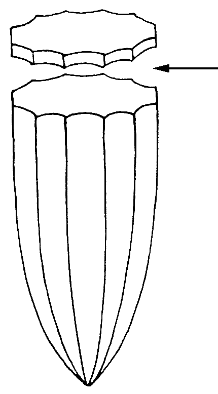 Rejuvenation core tablet in a conical blade core